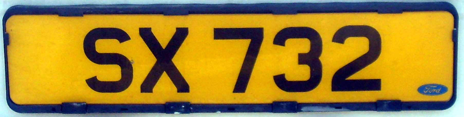 Licence plate of Cyprus, 1956-1990 (yellow design)